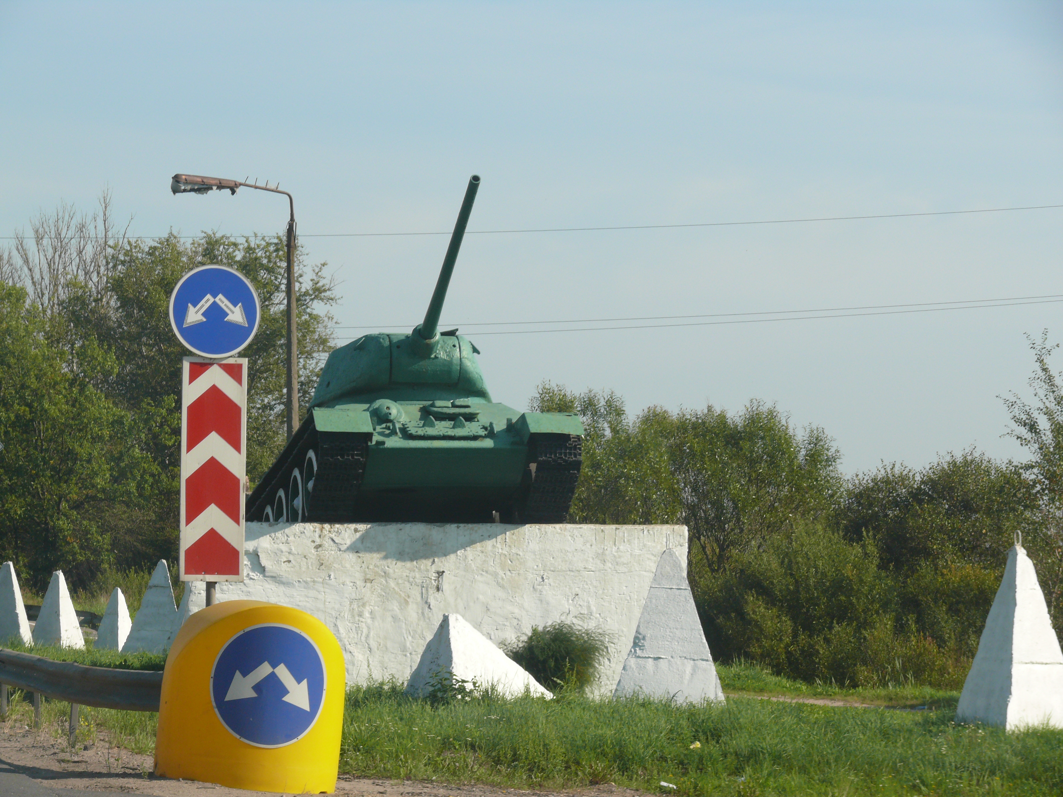 Monument near Podberezie village. Novgorodsky district, Novgorod oblast, Russia